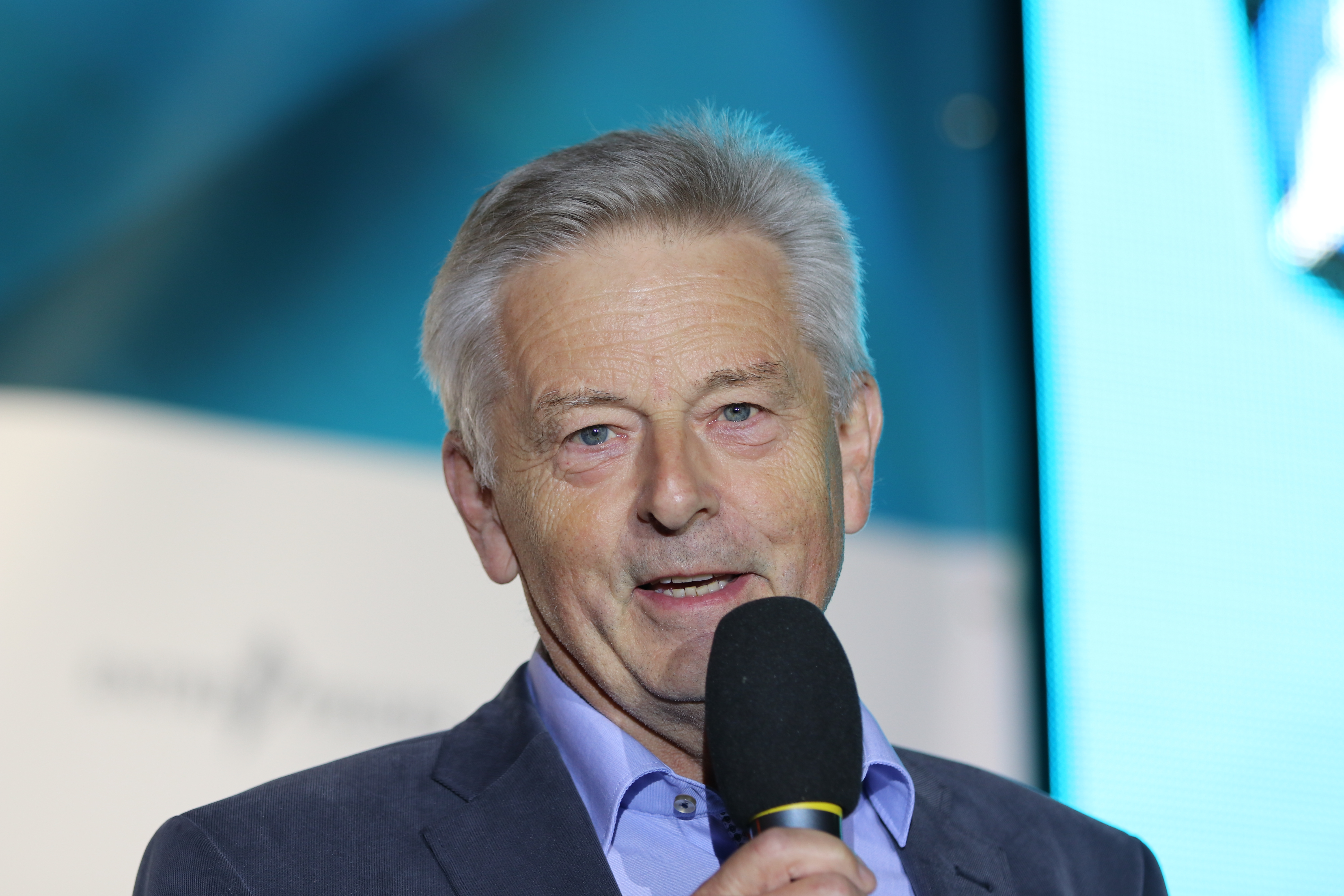 Josef Klenner, Chairman of the Deutscher Alpenverein at the Boulder Worldcup 2017 in Munich